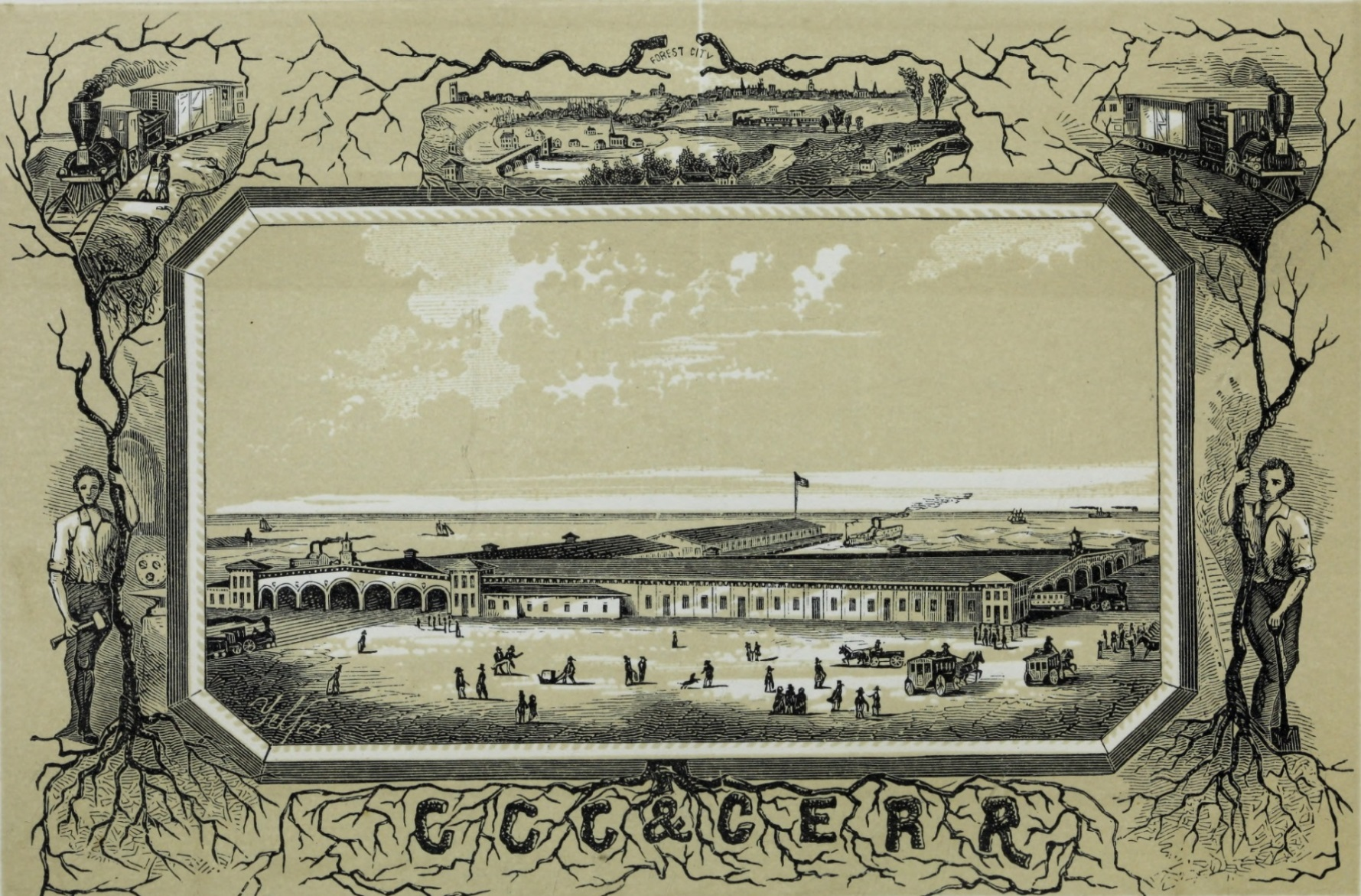 Engraving of the Cleveland Station in Cleveland, Ohio, in the United States. This is a freight and passenger depot on the Cleveland, Columbus and Cincinnati Railroad, built about 1851.